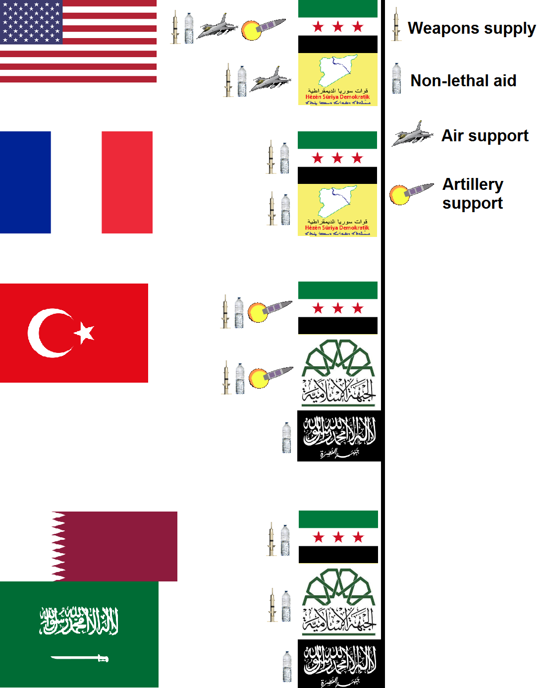 Infographic of states that provide support to various Syrian opposition groups.